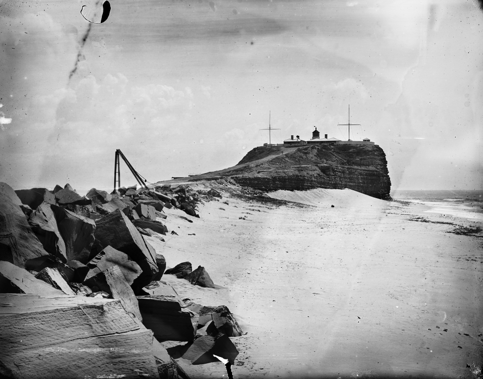 'Beaches' Pictures from The Powerhouse Museum This files was posted to Flickr by The Powerhouse Museum (See their website for further information). Many thanks to the Powerhouse Museum for helping release this wonderful material. This tag does not indicate the copyright status of the attached work. A normal copyright tag is still required. See Commons:Licensing for more information. This image is of Australian origin and is now in the public domain because its term of copyright has expired. According to the Australian Copyright Council (ACC), ACC Information Sheet G023v17 (Duration of copyright) (August 2014). Type of materialCopyright has expired if ... A Photographs or other works published anonymously, under a pseudonym or the creator is unknown:taken or published prior to 1 January 1955 B Photographs (except A):taken prior to 1 January 1955 C Artistic works (except A & B):the creator died before 1 January 1955 D Published editions1 (except A & B):first published more than 25 years ago E Commonwealth or State government owned2 photographs and engravings:taken or published more than 50 years ago and prior to 1 May 1969 1 means the typographical arrangement and layout of a published work. eg. newsprint. 2owned means where a government is the copyright owner as well as would have owned copyright but reached some other agreement with the creator. When using this template, please provide information of where the image was first published and who created it.